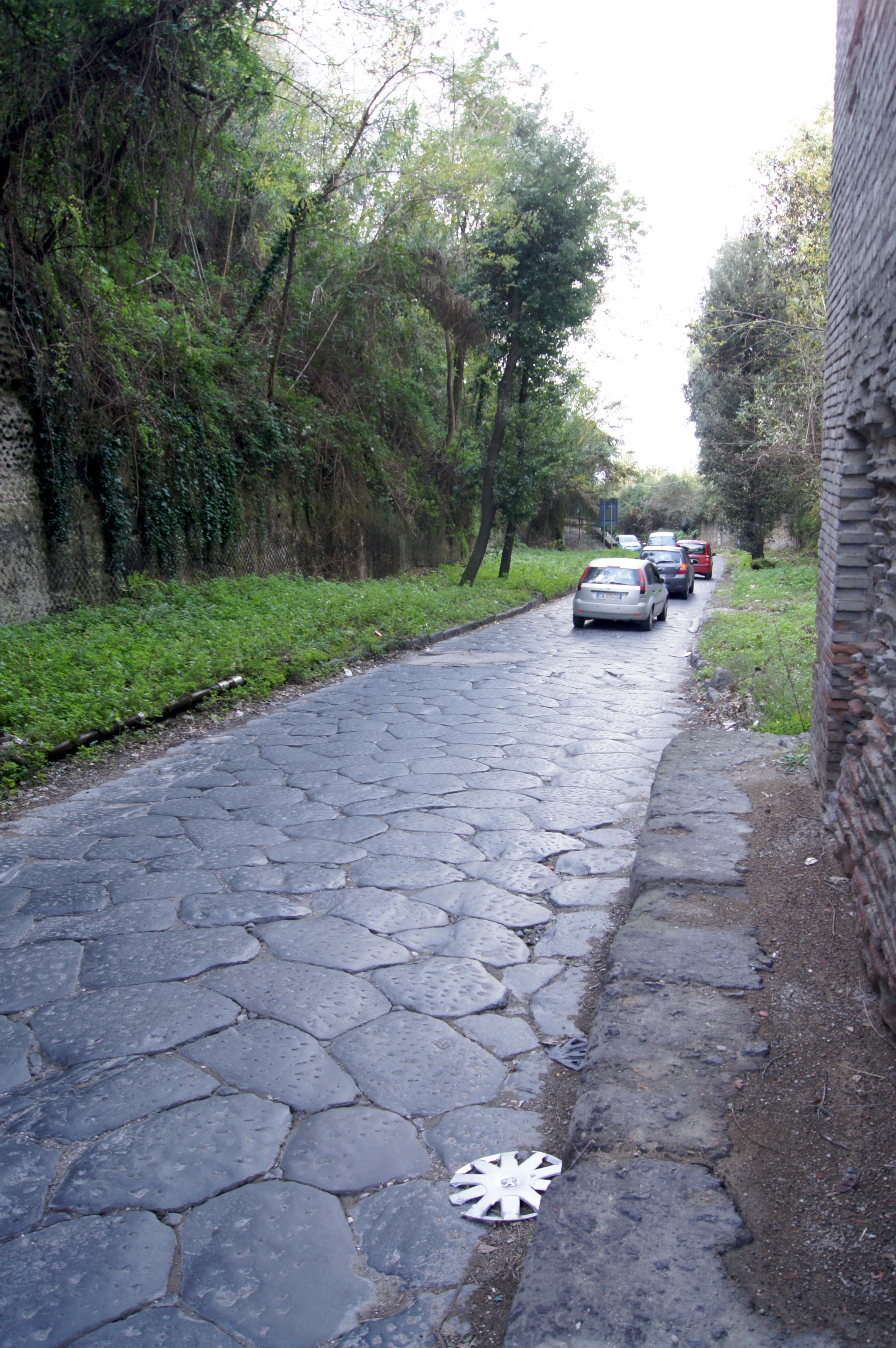 Arco Felice and via Domitiana